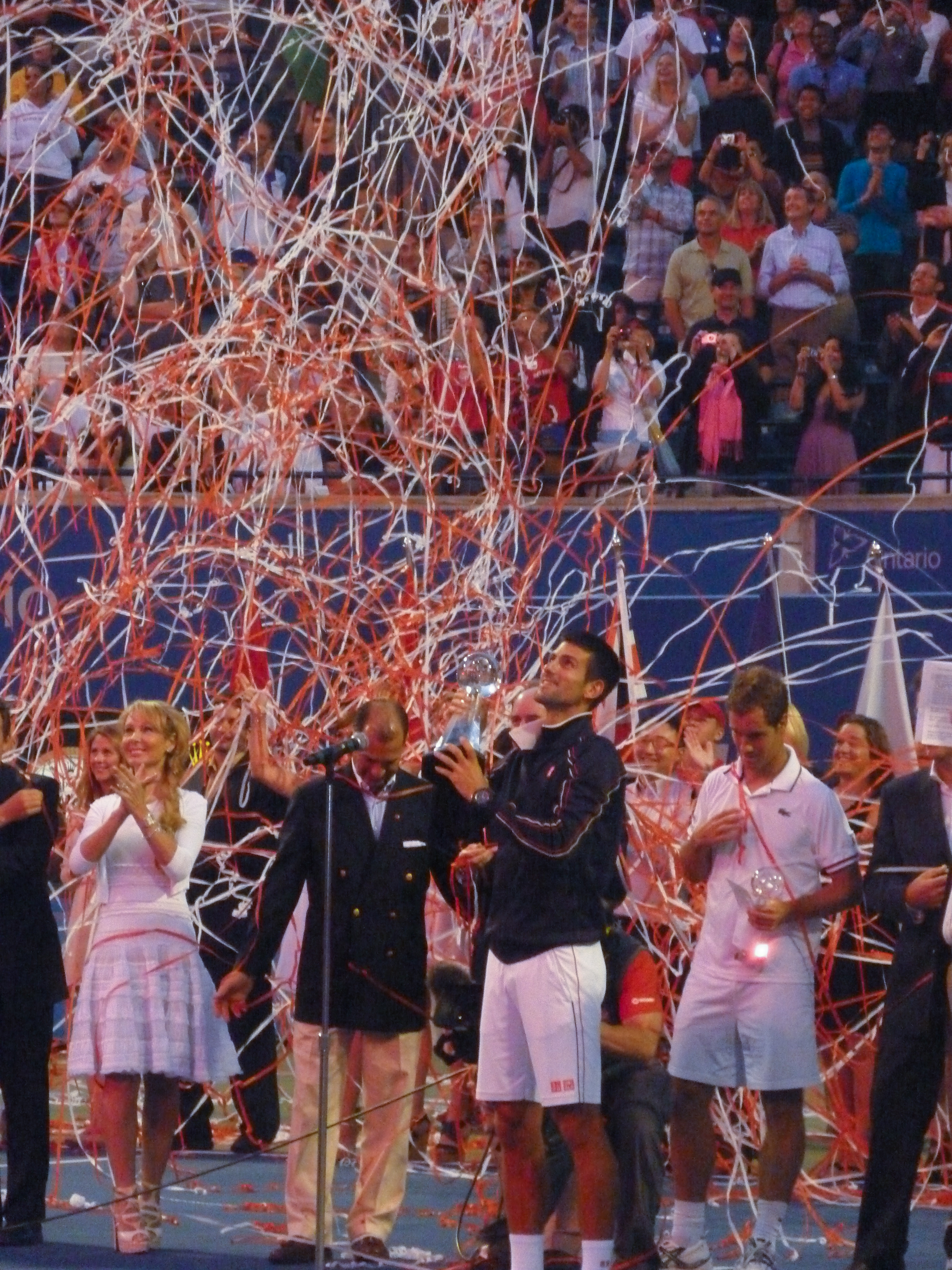 2012 Rogers Cup in Toronto final mach between Novak Djokovic vs Richard Gasquet